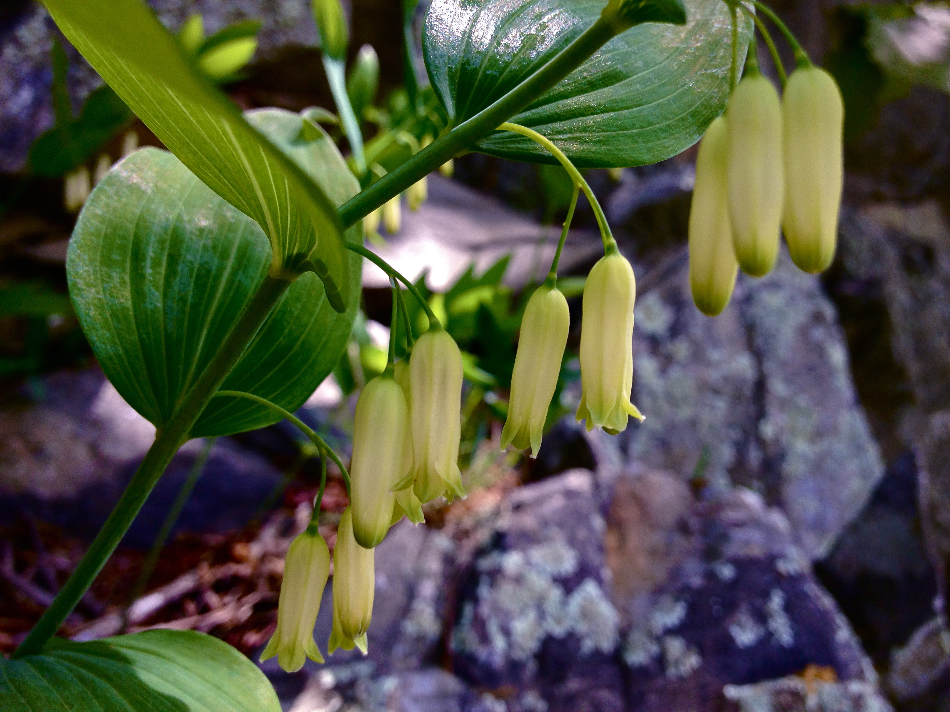 Photo of Polygonatum biflorum in flower. This is a native plant growing wild in the C & O Canal National Historical Park, Montgomery county Maryland, USA. This species is a member of the Asparagaceae family.